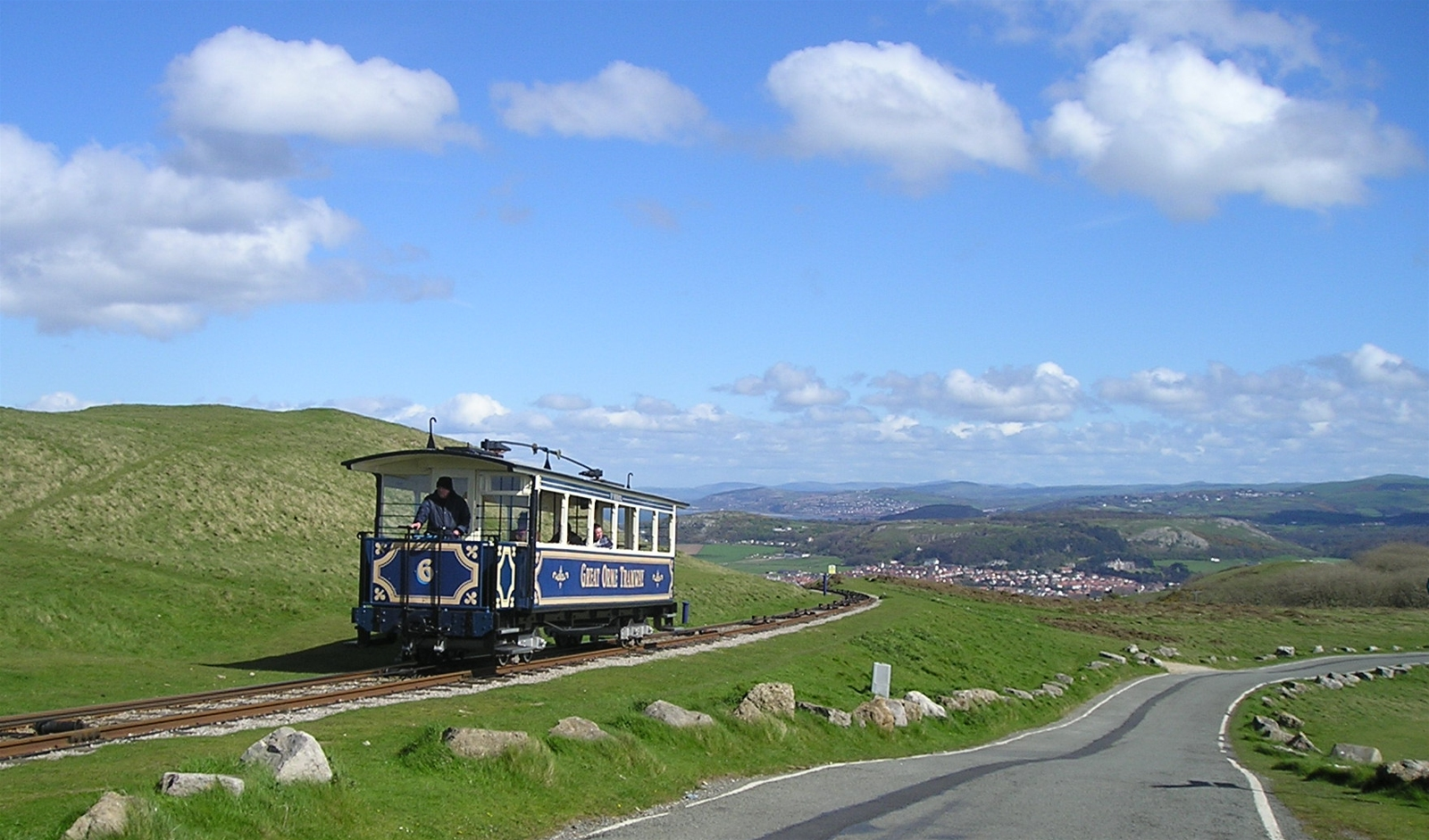 Tramway car nearing the summit of the Great Orme, photographed by me, Noel Walley, on 27/04/2005